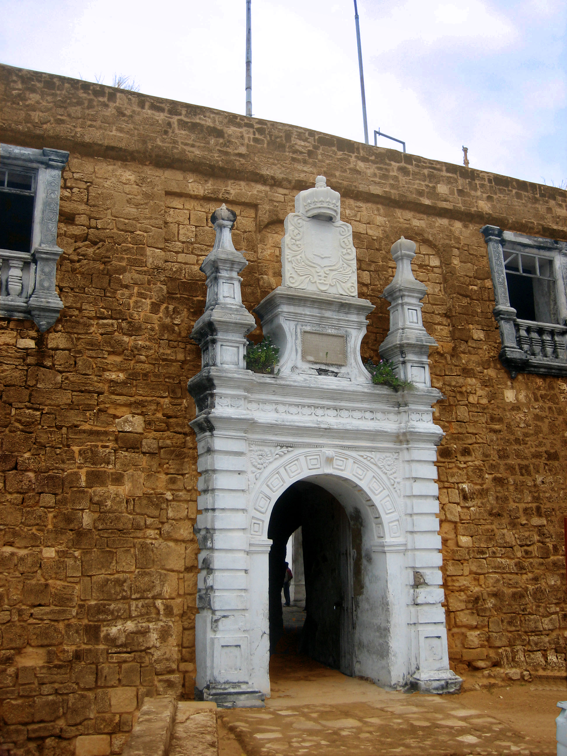 Fort of Sao Sebastiao